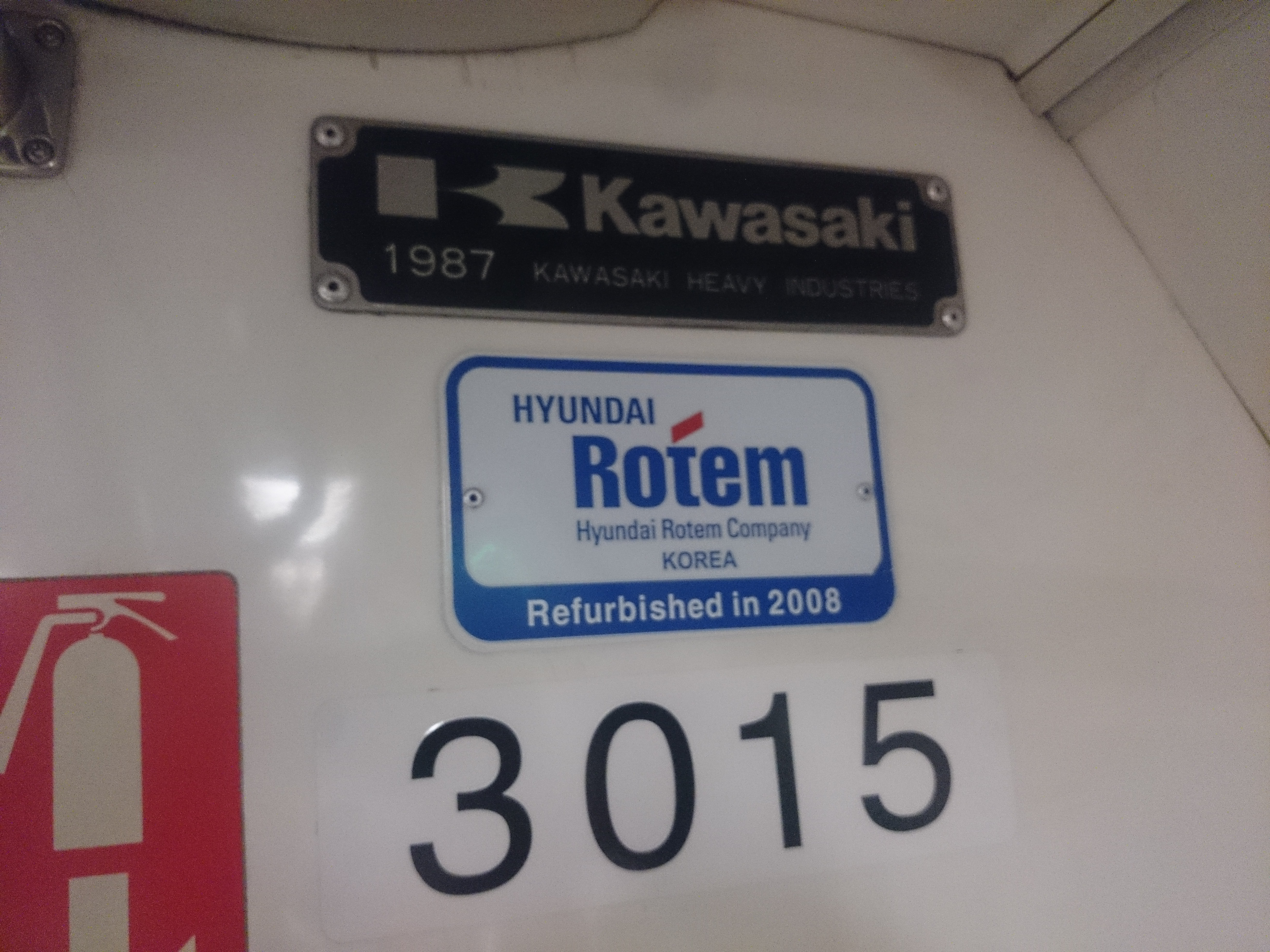 A label in C151 EMU showing logos of Kawasaki constructed this train in 1987 and HYUNDAI Rotem refurbished it in 2008.